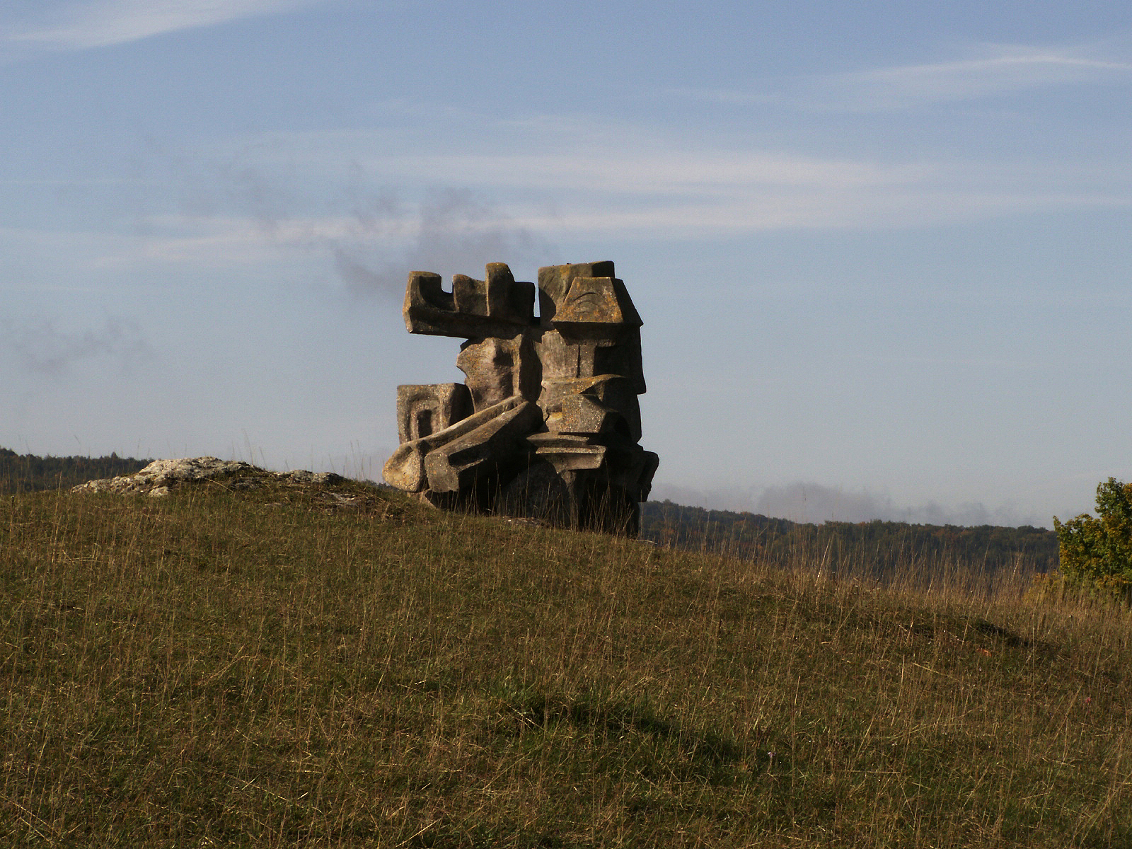 Alois Wünsche-Mitterecker, Field of Figures, - Memorial for Peace and Freedom – against War and Violence, Germany, Bavaria, Eichstätt/Hessental